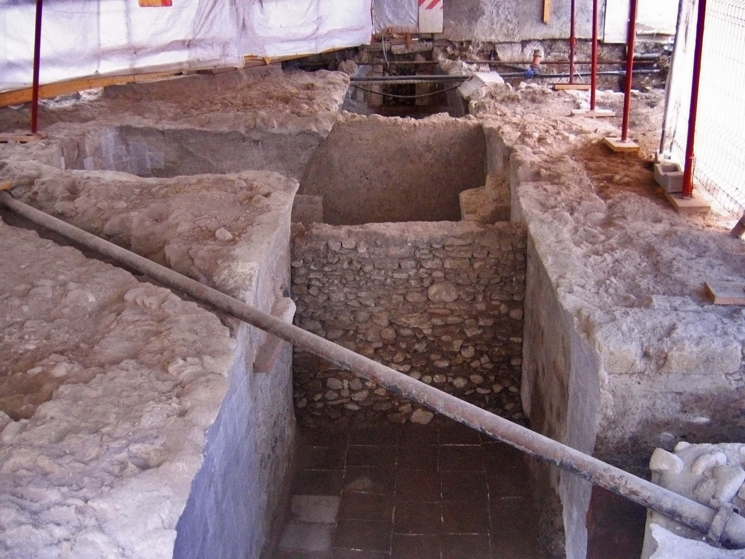 Crypt of San Marco dei Sabariani, Benevento, Italy. Overall view before the construction of the new roofing.